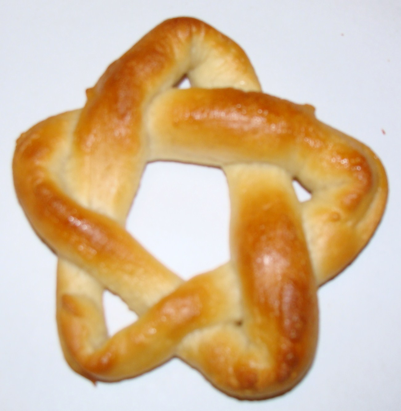 An edible cinquefoil knot or the pentafoil knot, is one of two knots with crossing number five, the other being the three-twist knot. It is listed as the 5_1 knot in the Alexander-Briggs notation, and can also be described as the (5,2)-torus knot.